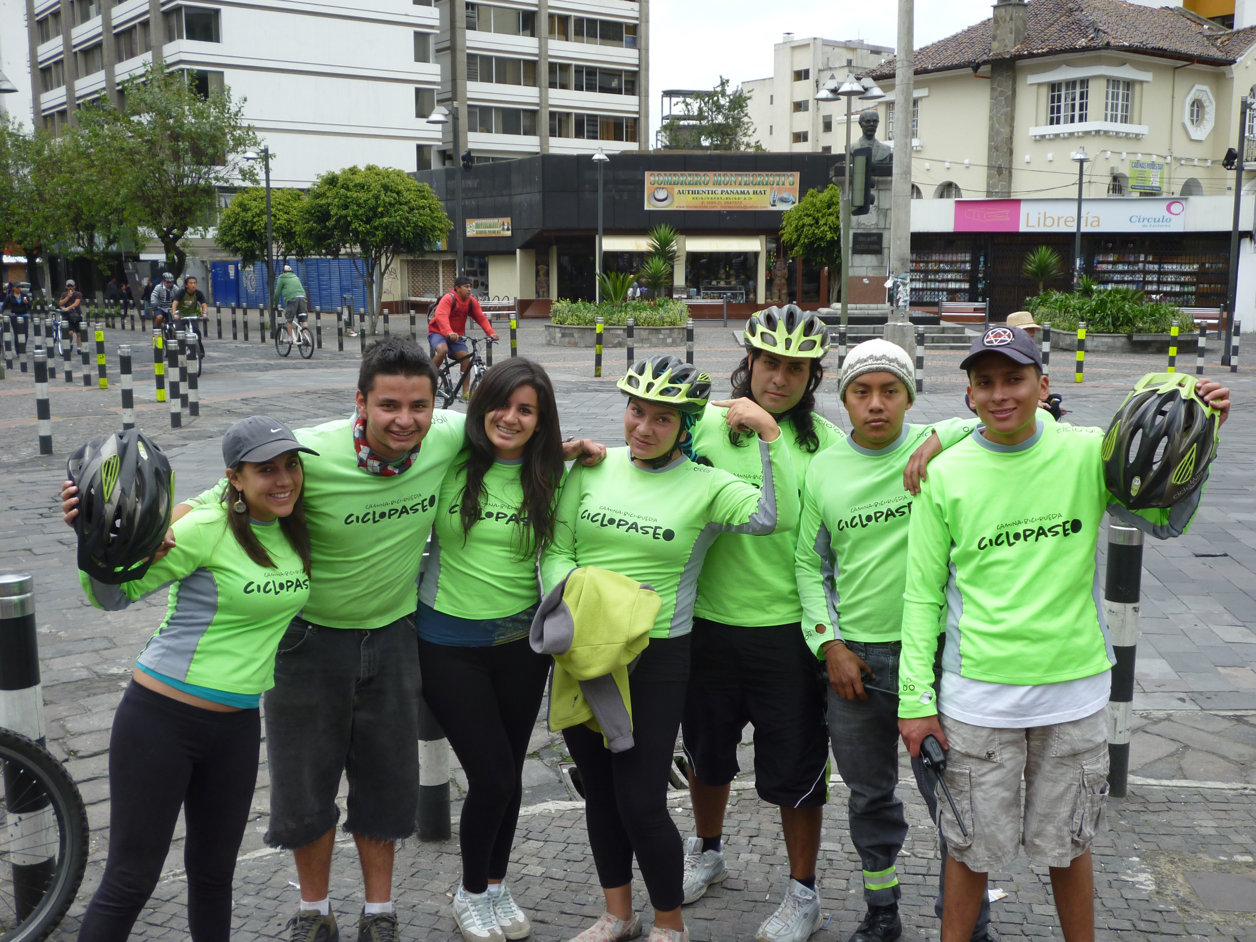 Ciclopaseo Staff in Quito Ecuador